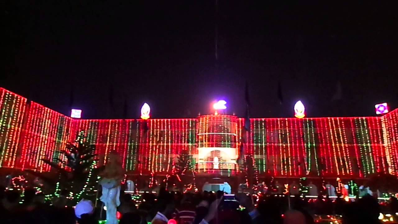 School During the final year Prize Ceremoni